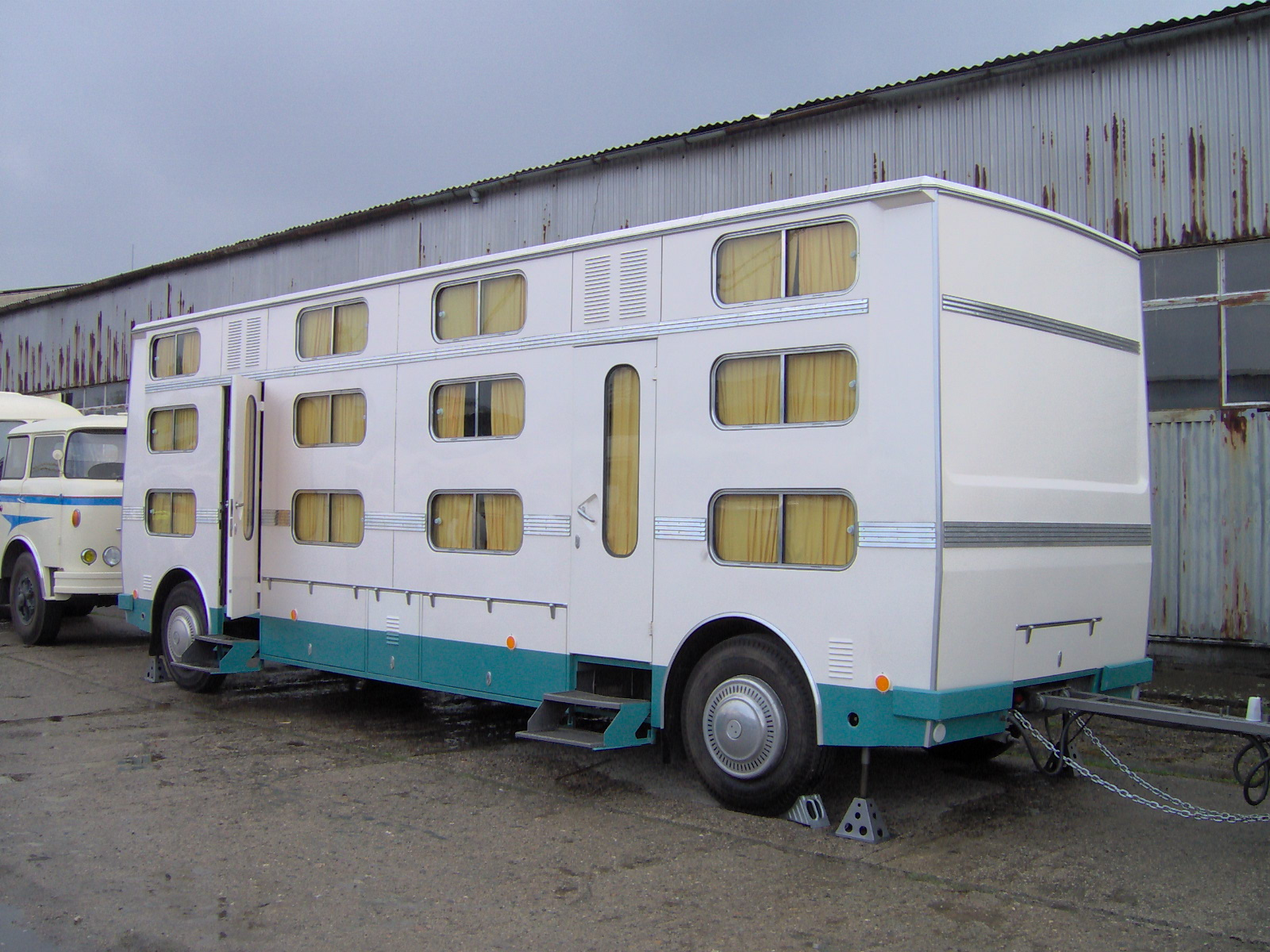 Historical bus travel trailer Karosa LP 30 in Brno